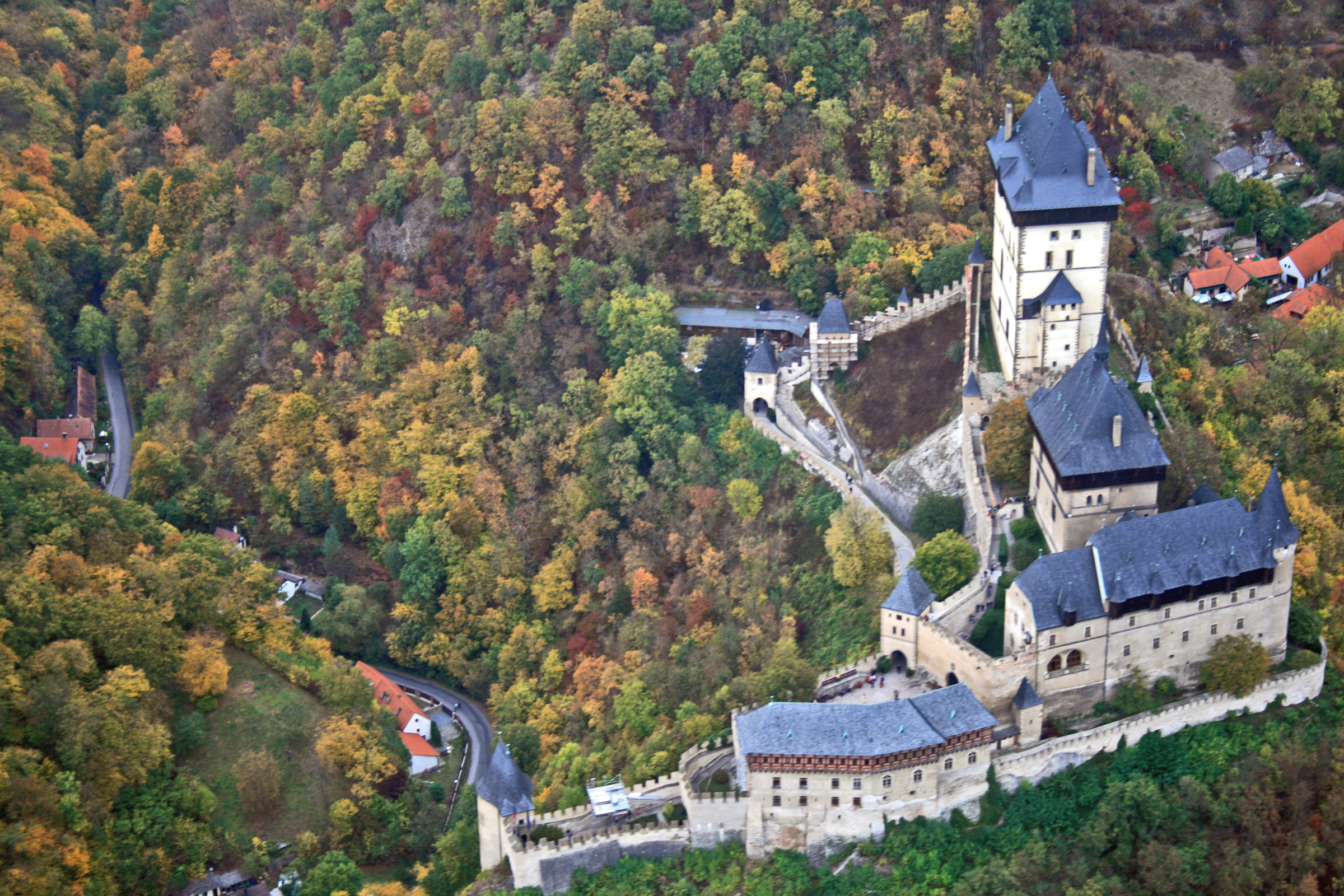 Air photo of Karlštejn Castle, middle Bohemia, Czech Republic